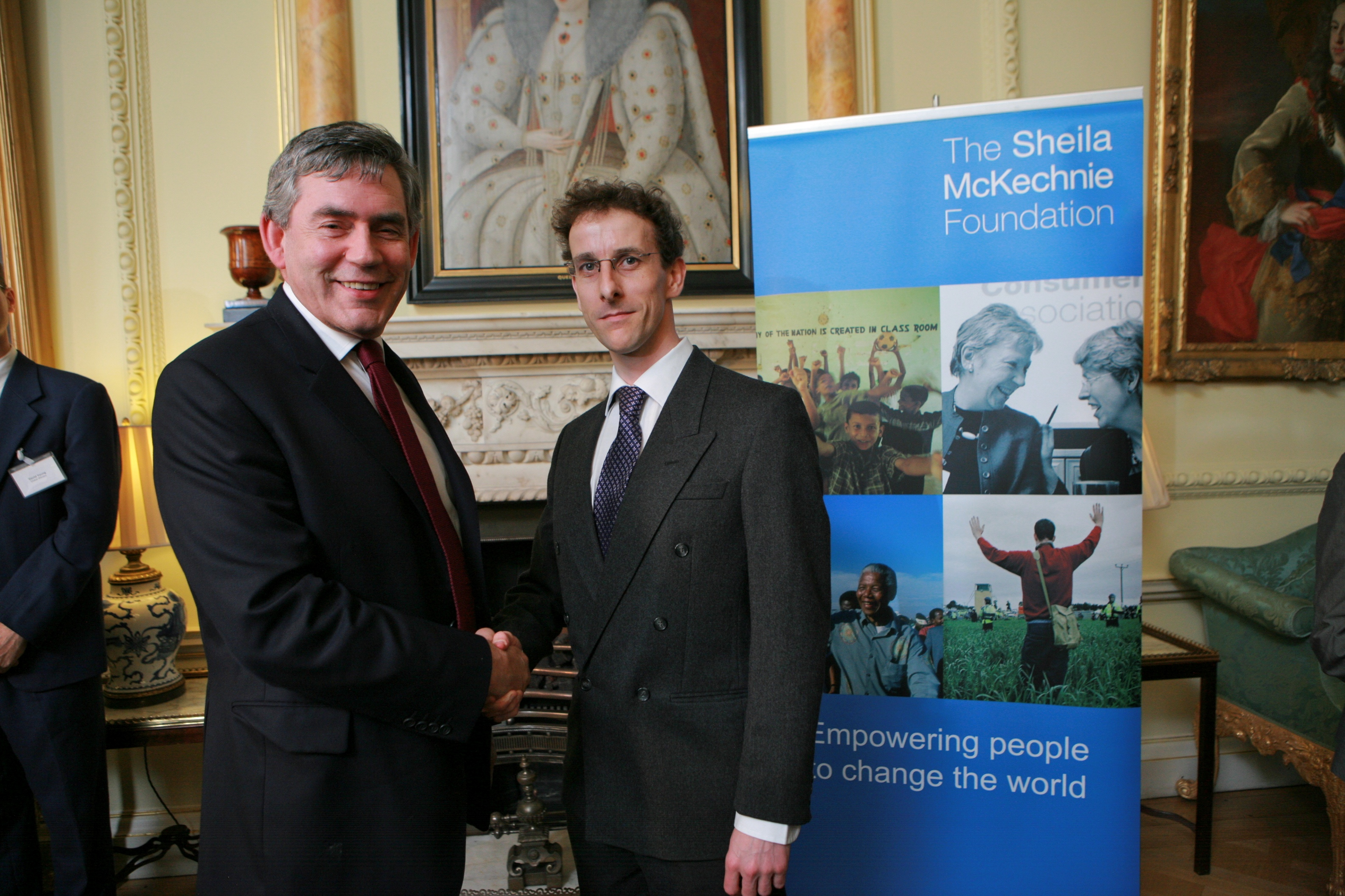 Nick Wilson getting Sheila McKechnie Award from PM Gordon Brown at Downing St